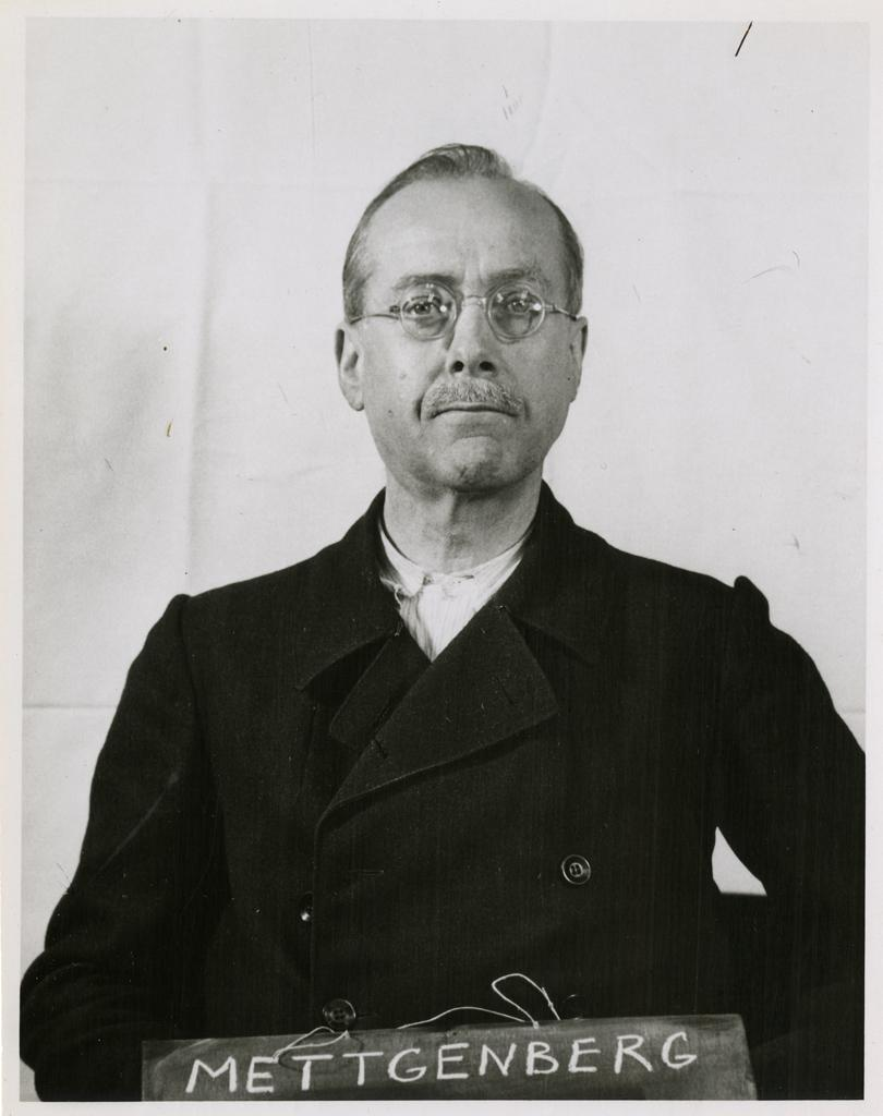 Wolfgang Mettgenberg (1882-1950) was a high ranking official (Ministerialdirektor) in the German Ministry of Justice (Reichsjustizministerium) during the Second World War.. This photograph of Mettgenberg (probably as a defendant during the Nurmeberg Trials No. III - the Justice Case) was taken by US Army photographers on behalf of the Office of the U.S. Chief of Counsel for the Prosecution of Axis Criminality (OUSCCPAC, May 1945 - Oct. 1946) or its successor organization, the Office of Chief of Counsel for War Crimes (OCCWC, Oct. 1946 - June 1949).